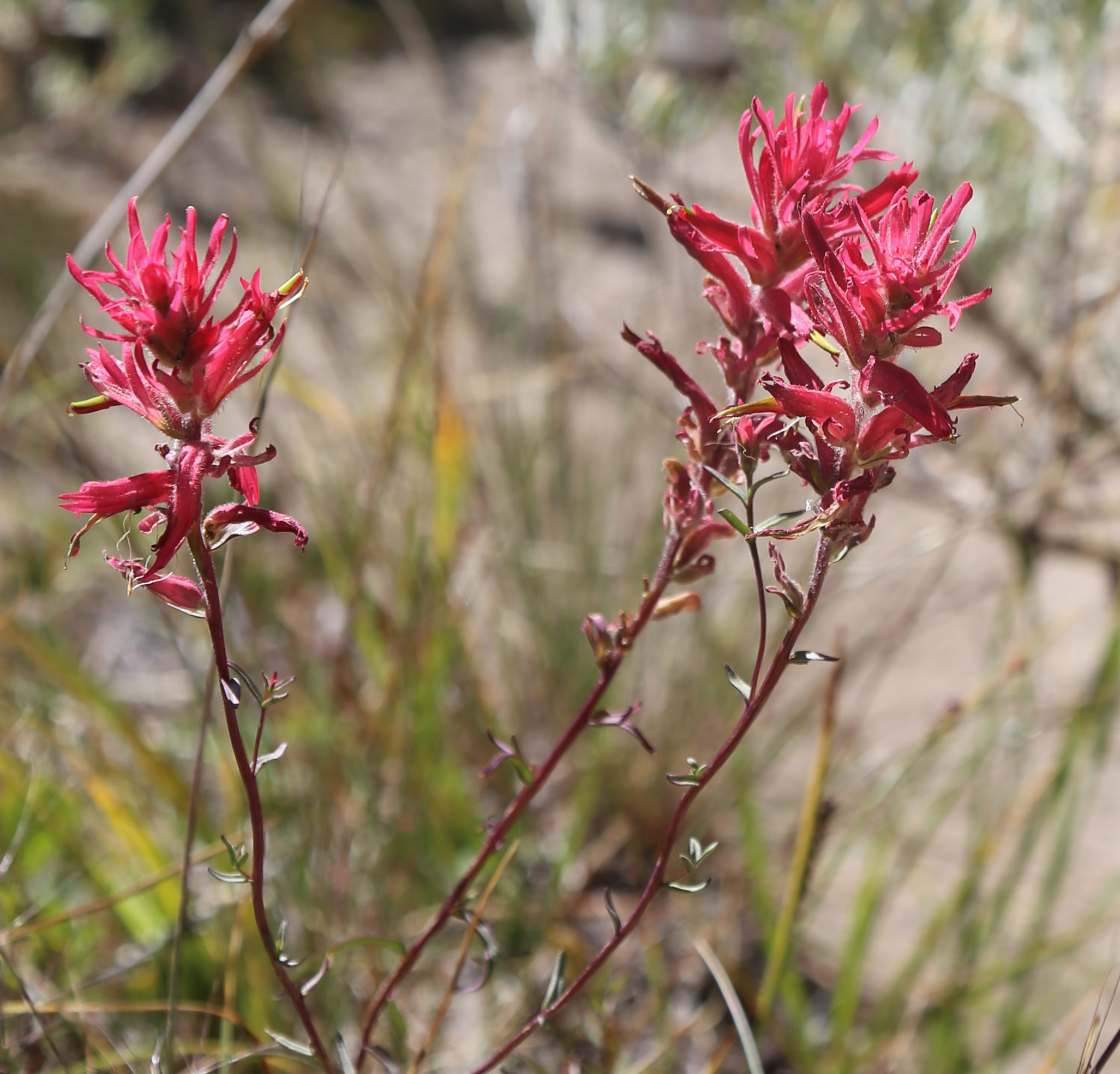 Linear-leaved paintbrush (Castilleja linariifolia), trio of pinkish flowers and sparse, narrow leaves. At 10,300 ft (3,100 m) near start of trail into Little Lakes Valley, near John Muir Wilderness, Sierra Nevada USA.